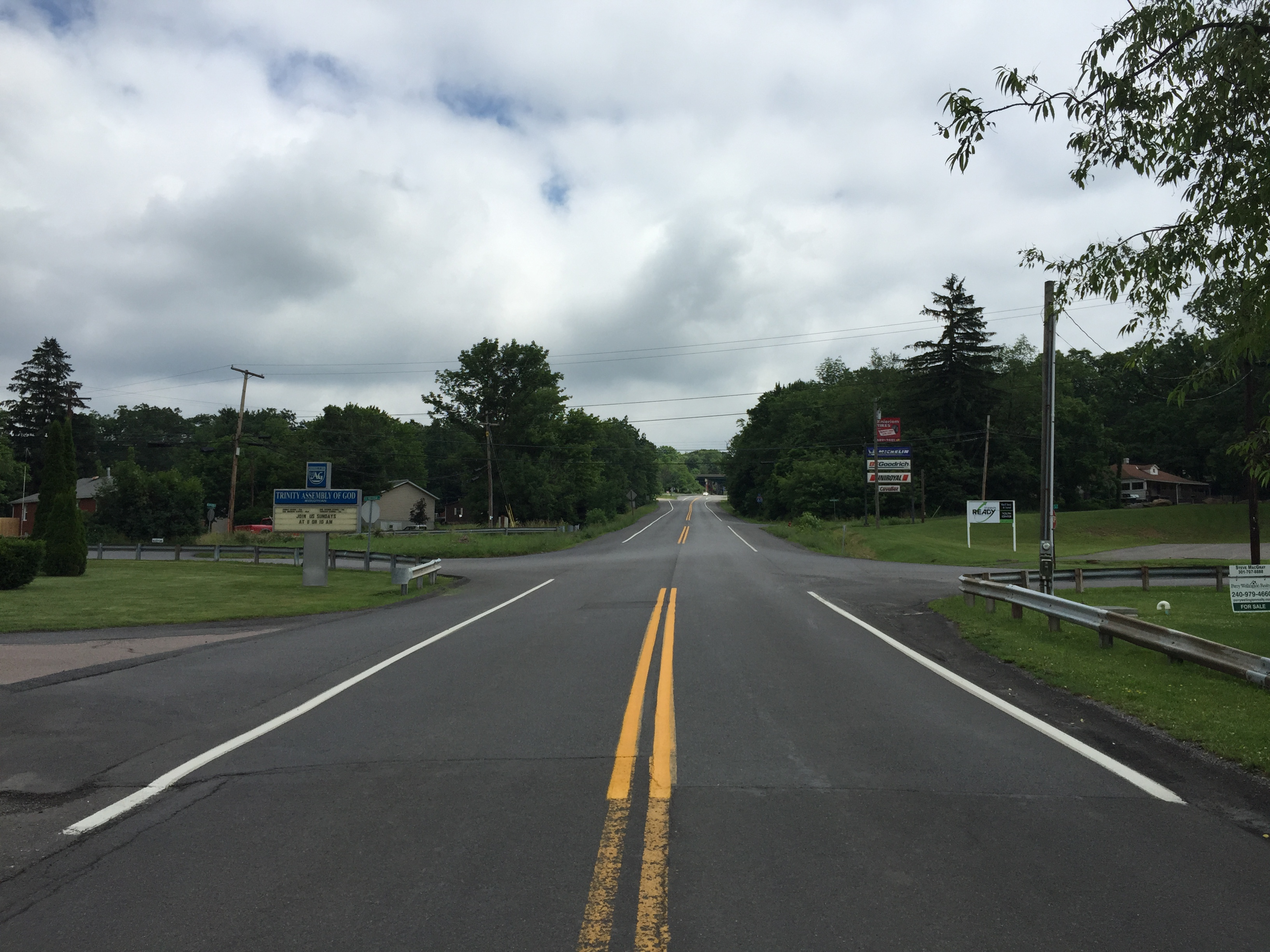 View north along Maryland State Route 736 (Old Legislative Road) just south of Shaft Road in Midlothian, Allegany County, Maryland